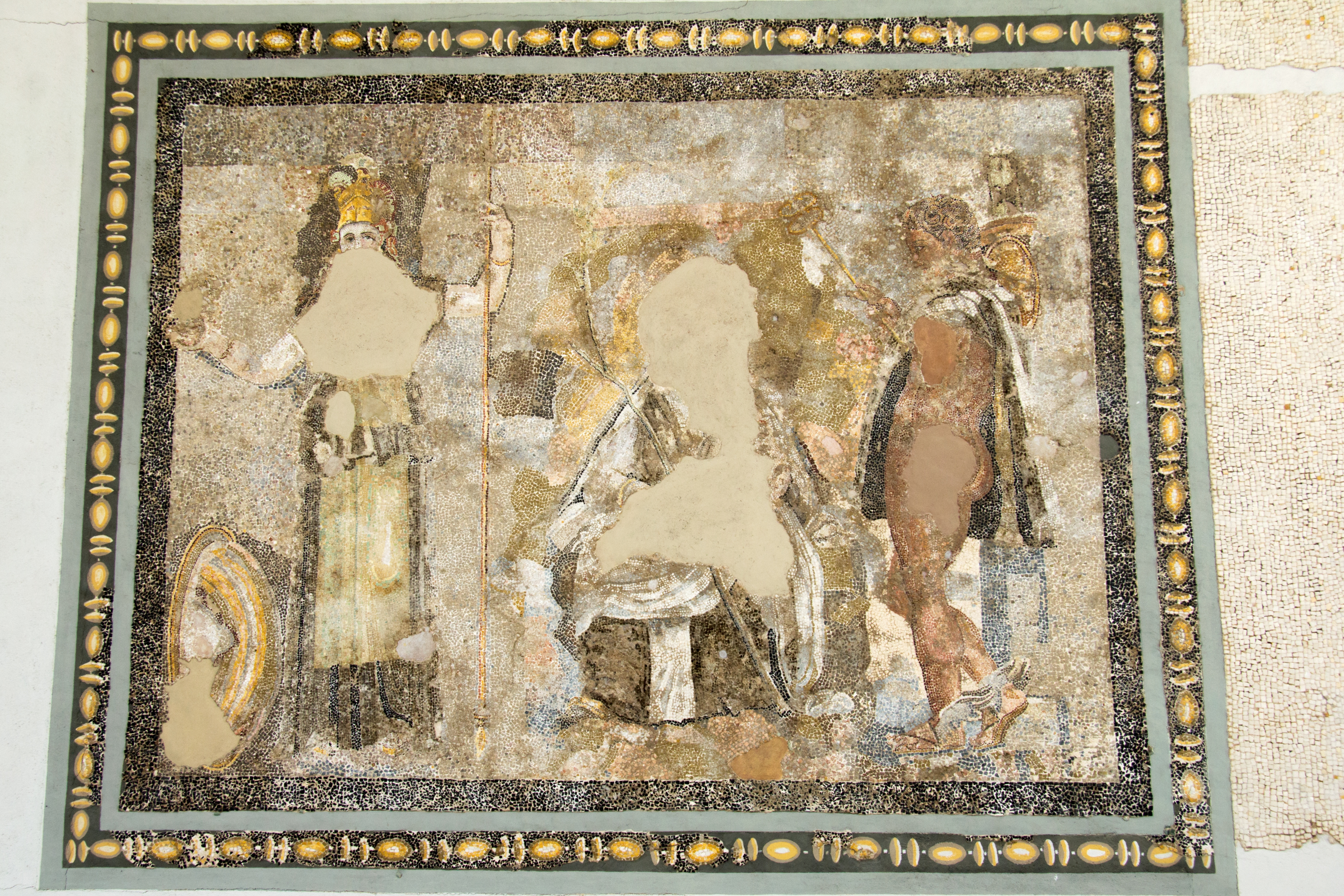 Large mosaic floor from a house in Delos' "Jewelery Quarter". The central medailon: Athena in golden armour and helmet and Hermes in a chlamys (cloak) and petasos (traveling hat) surround a throning figure that can no longer be identified. Circa 100 BC. Archaeological Museum of Delos.